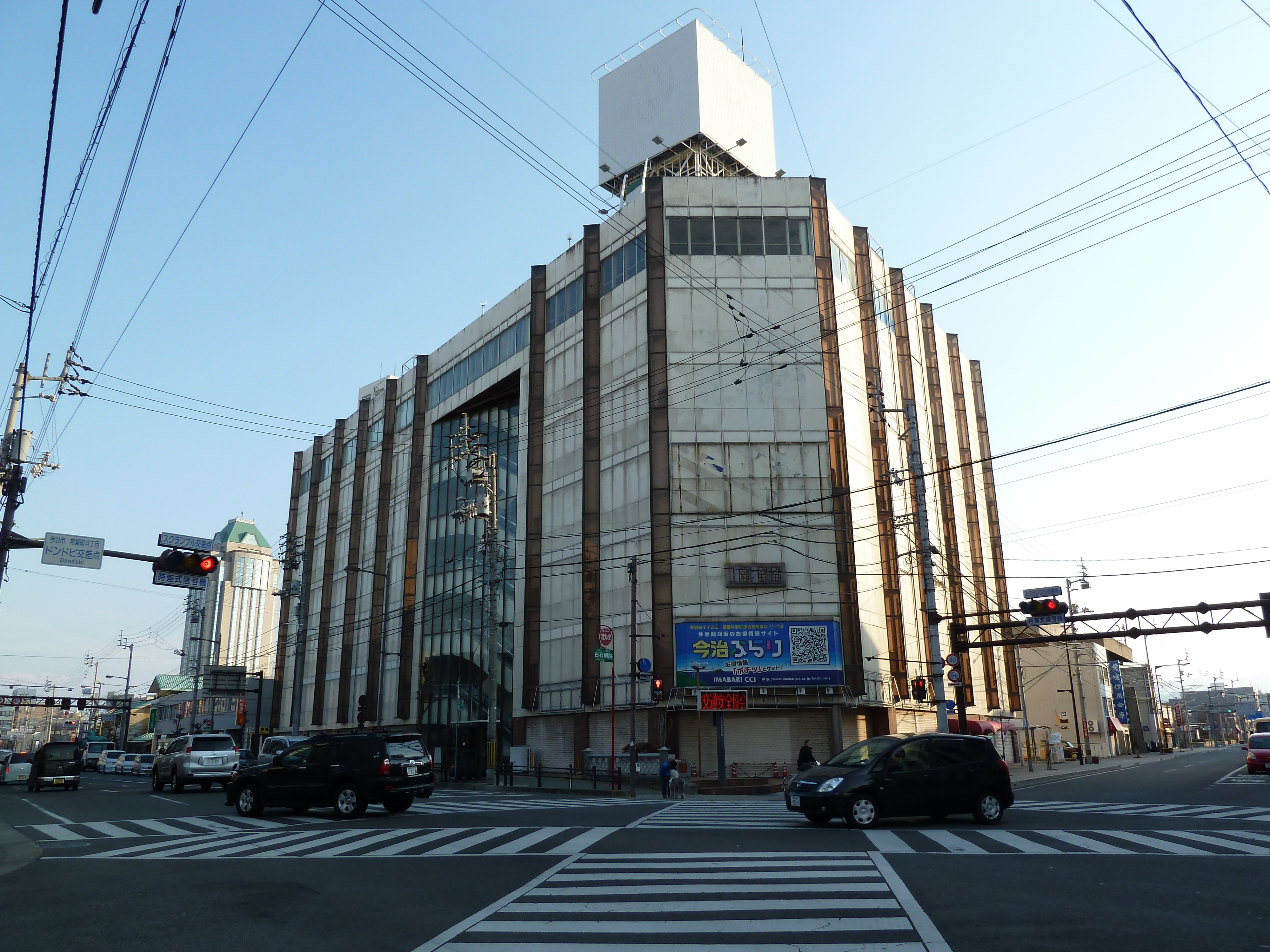 廃業後の今治大丸の建物